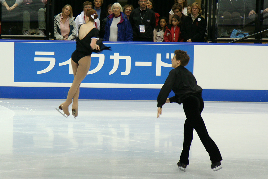 Jessica Miller and Ian Moram perform a throw jump at the 2006 Skate Canada International.